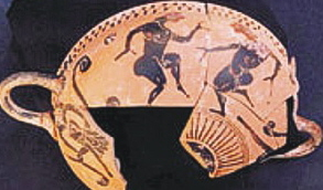 Ancient Greek Ceramic kylix in the area of Ptolemaida Greece